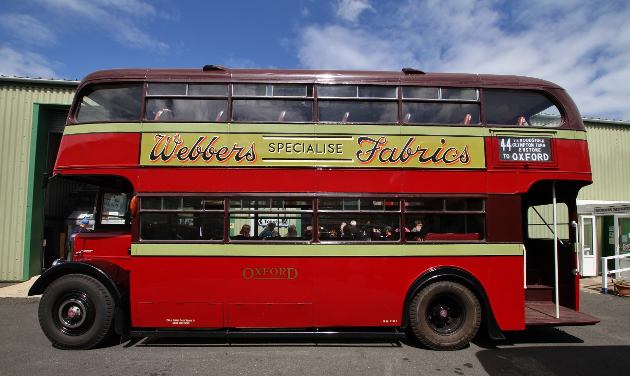 1950 AEC Regent III bus with Weymann body, registration mark PWL 413, at Oxford Bus Museum, Long Hanborough, Oxfordshire. The bus was operated by City of Oxford Motor Services, fleet number L166.